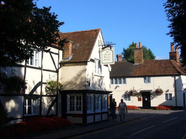 The Great House Hotel and restaurant in the upmarket Thames-side village of Sonning, Berkshire, England.